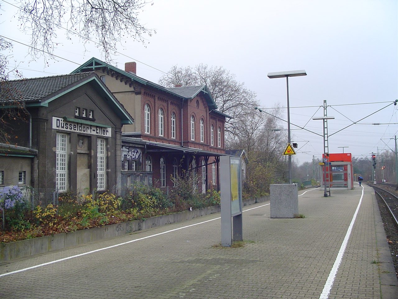 Train station in Düsseldorf-Eller, Germany